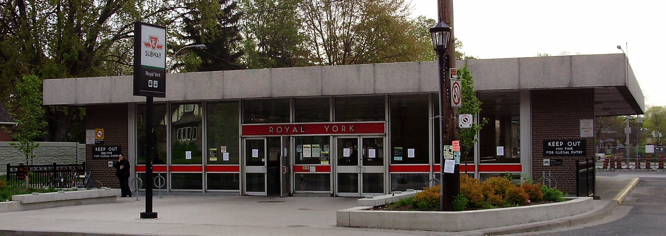 The Toronto Transit Commission's Royal York station in Toronto, Canada.